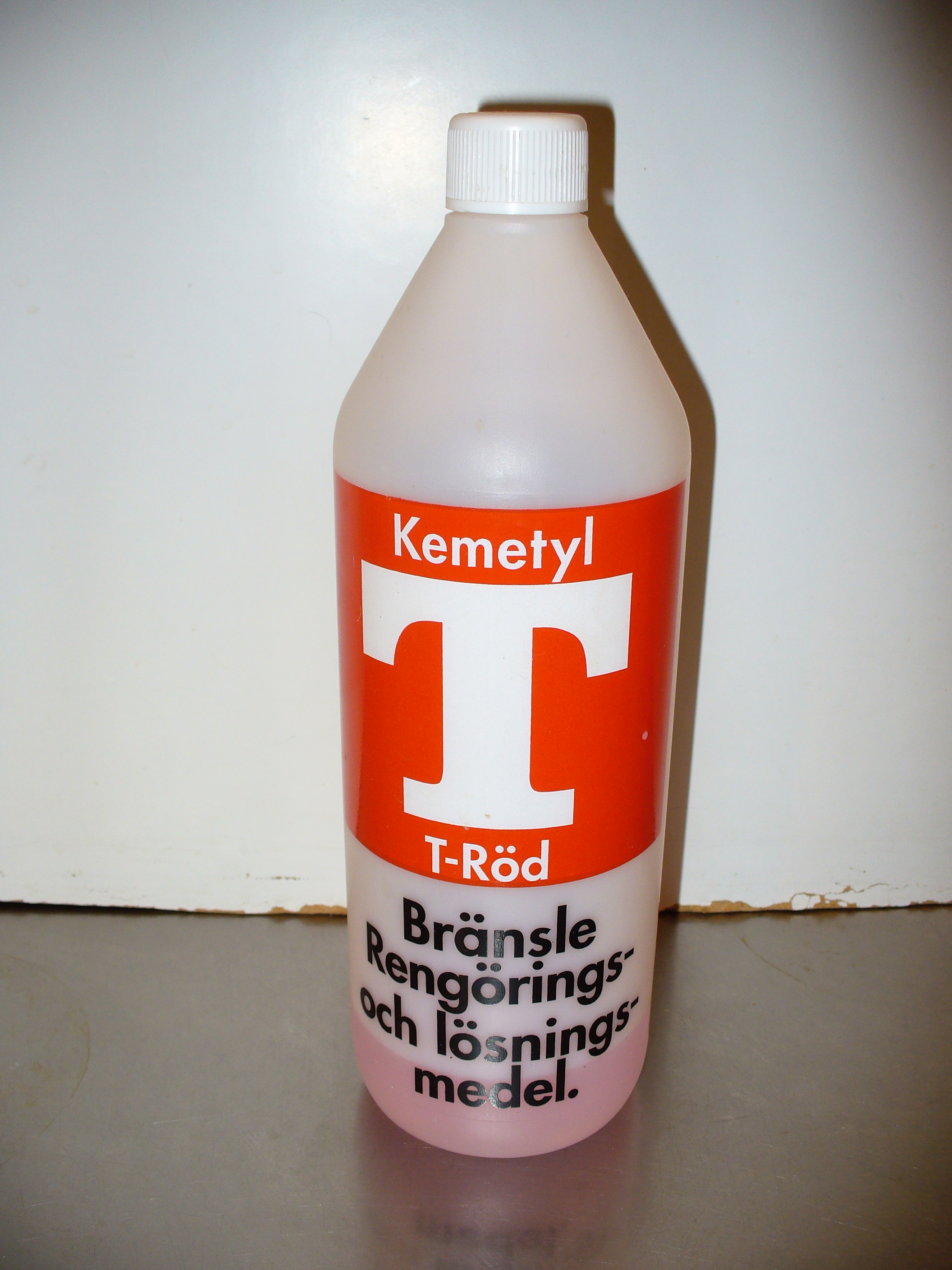 Bottle of T-Röd - technical ethanol manufactured by Swedish company Kemetyl